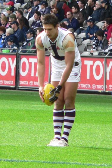 Matthew Pavlich prepares to kick for goal.